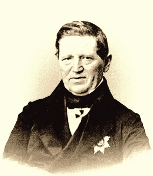 Portrait of Nikolay Brashman (1796-1866), Russian mathematician